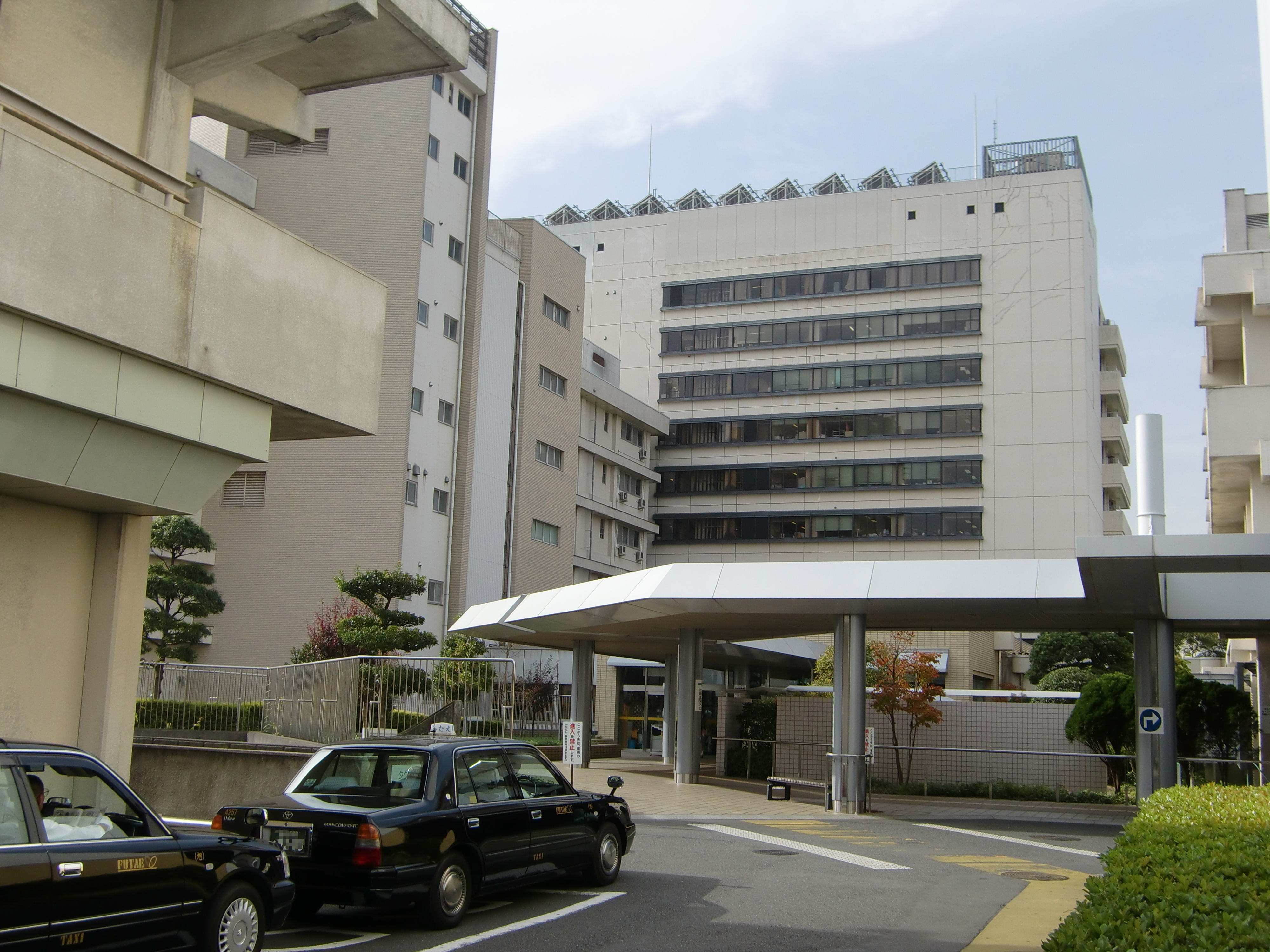 Kanagawa Cancer Center